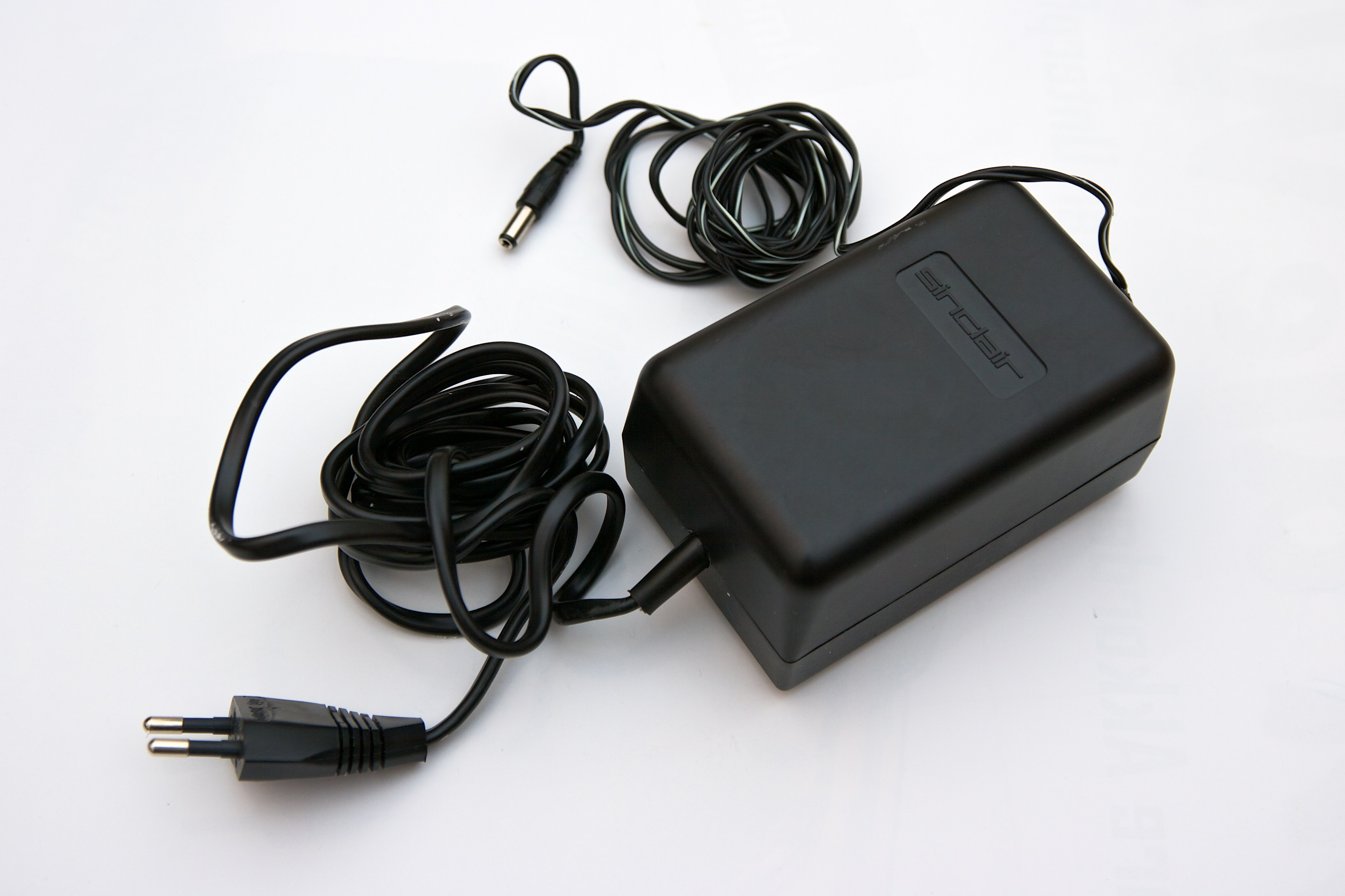 Sinclair ZX Spectrum power adapter